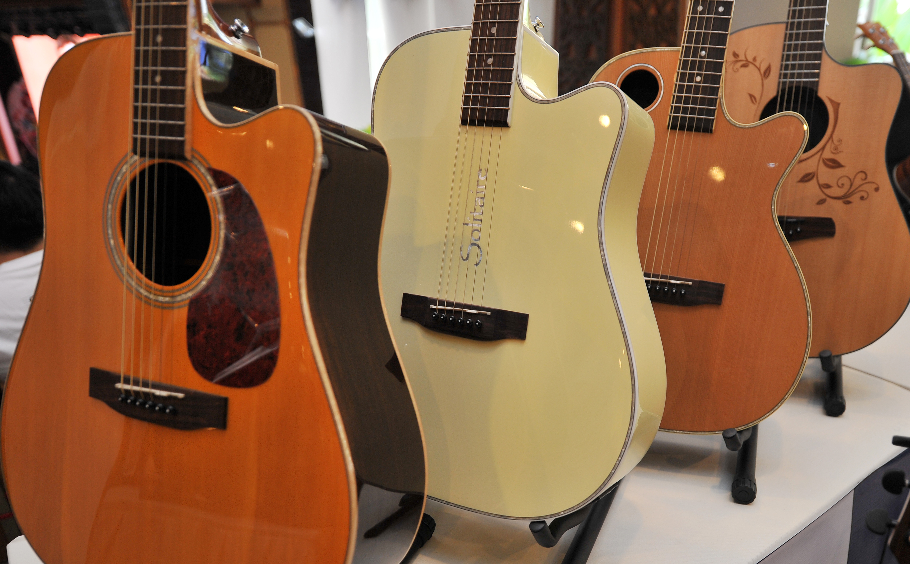 Kuala Lumpur,27/03/2013.Malaysia Internasional Guitar Festival 2013 at National Craft Jalan Conlay. Pix Firdaus Latif